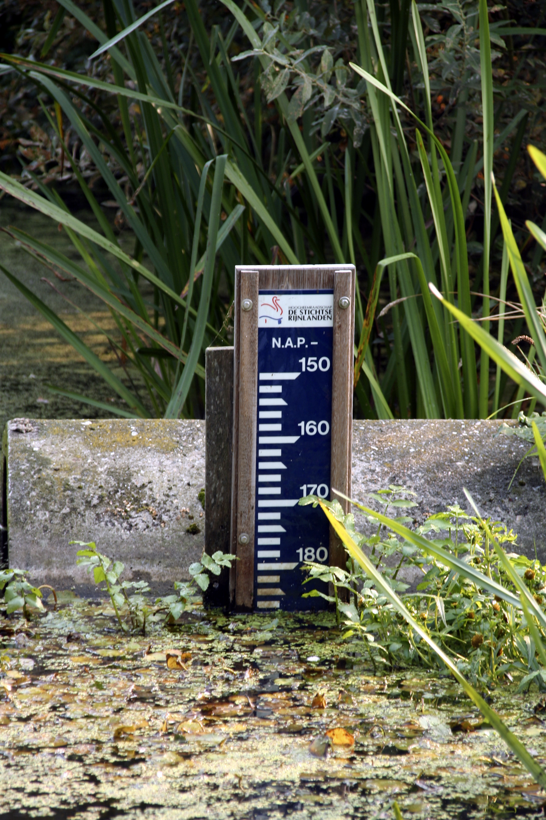 NAP information near Woerden, the Netherlands